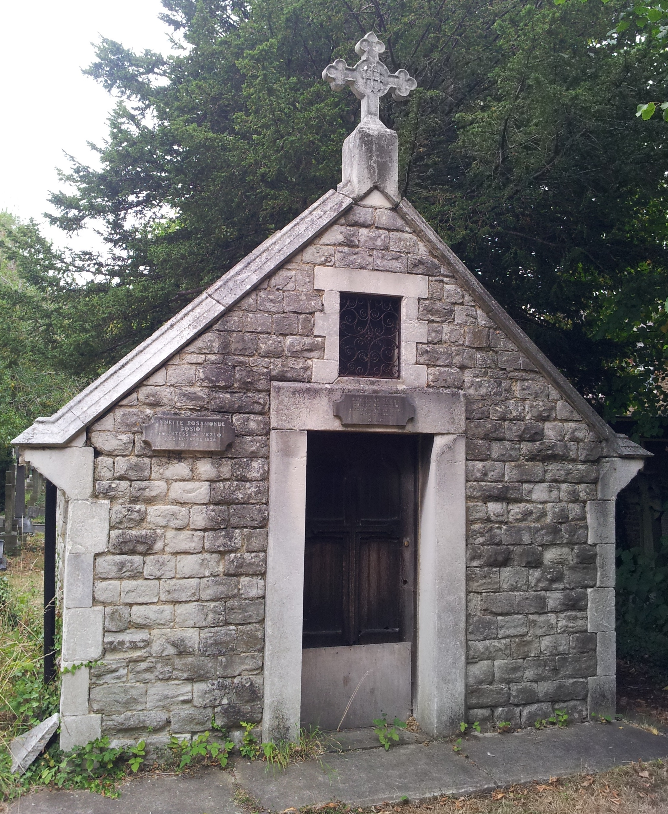 De Vezlo Mausoleum, Mortlake, London